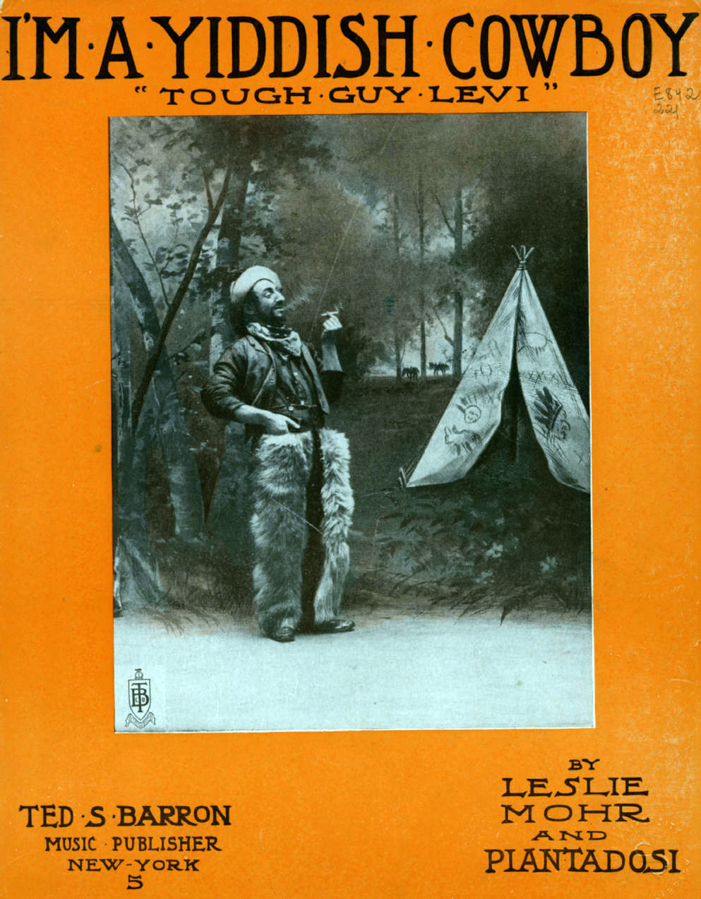 Sheet music cover